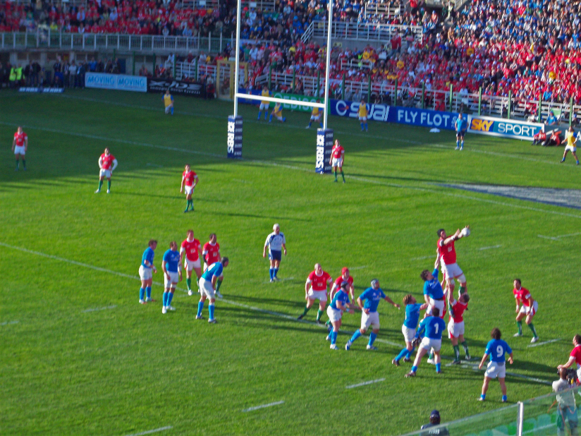 A Touch in Italy-Wales match of 2009 Six Nations